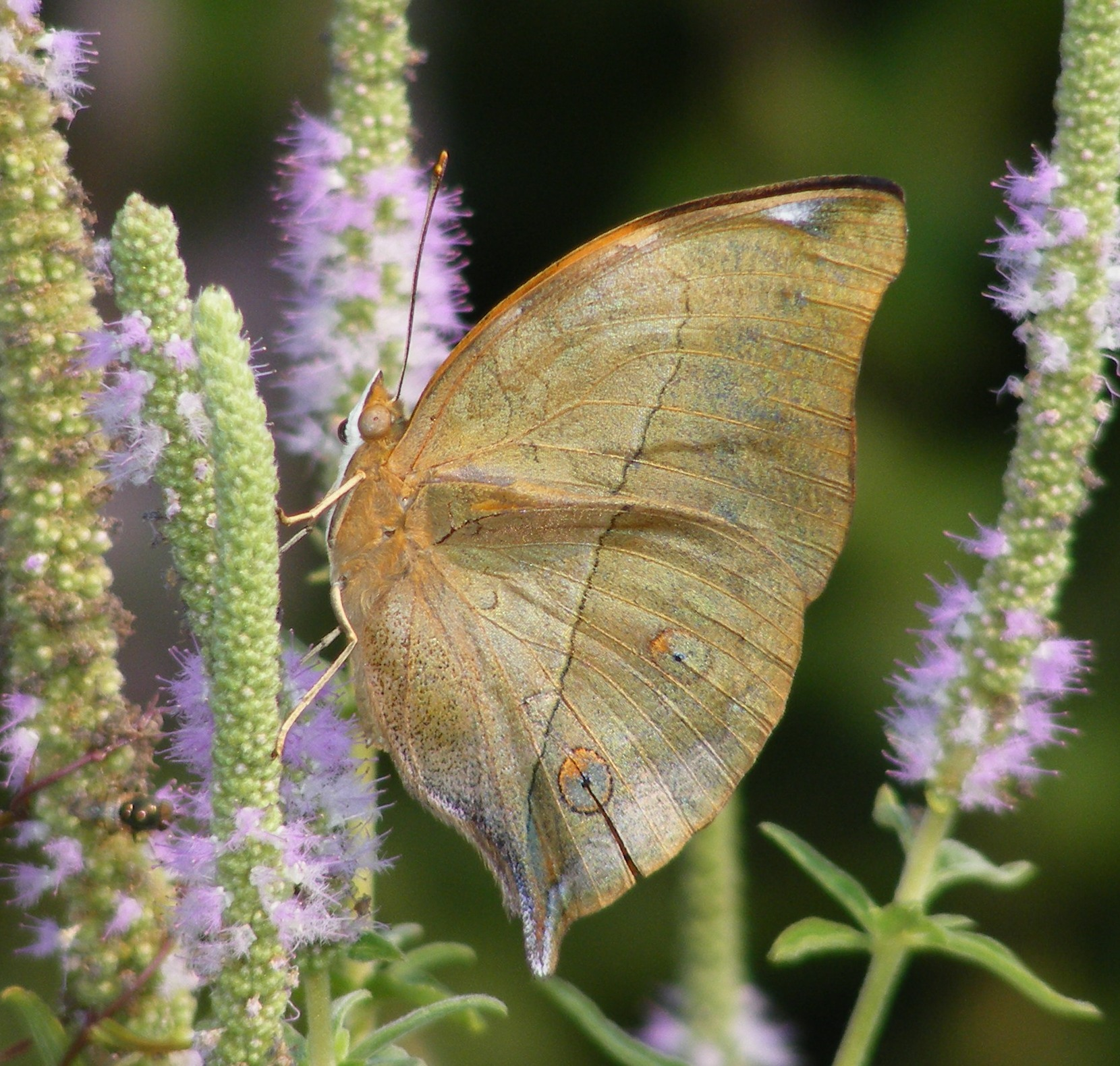 No white markings in the base of the underwing, so should be a female.